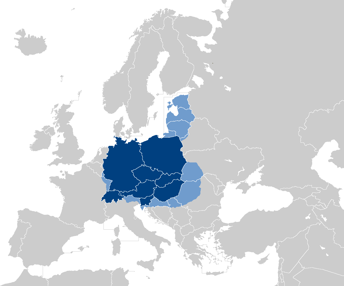 Central Europe according to this proposal